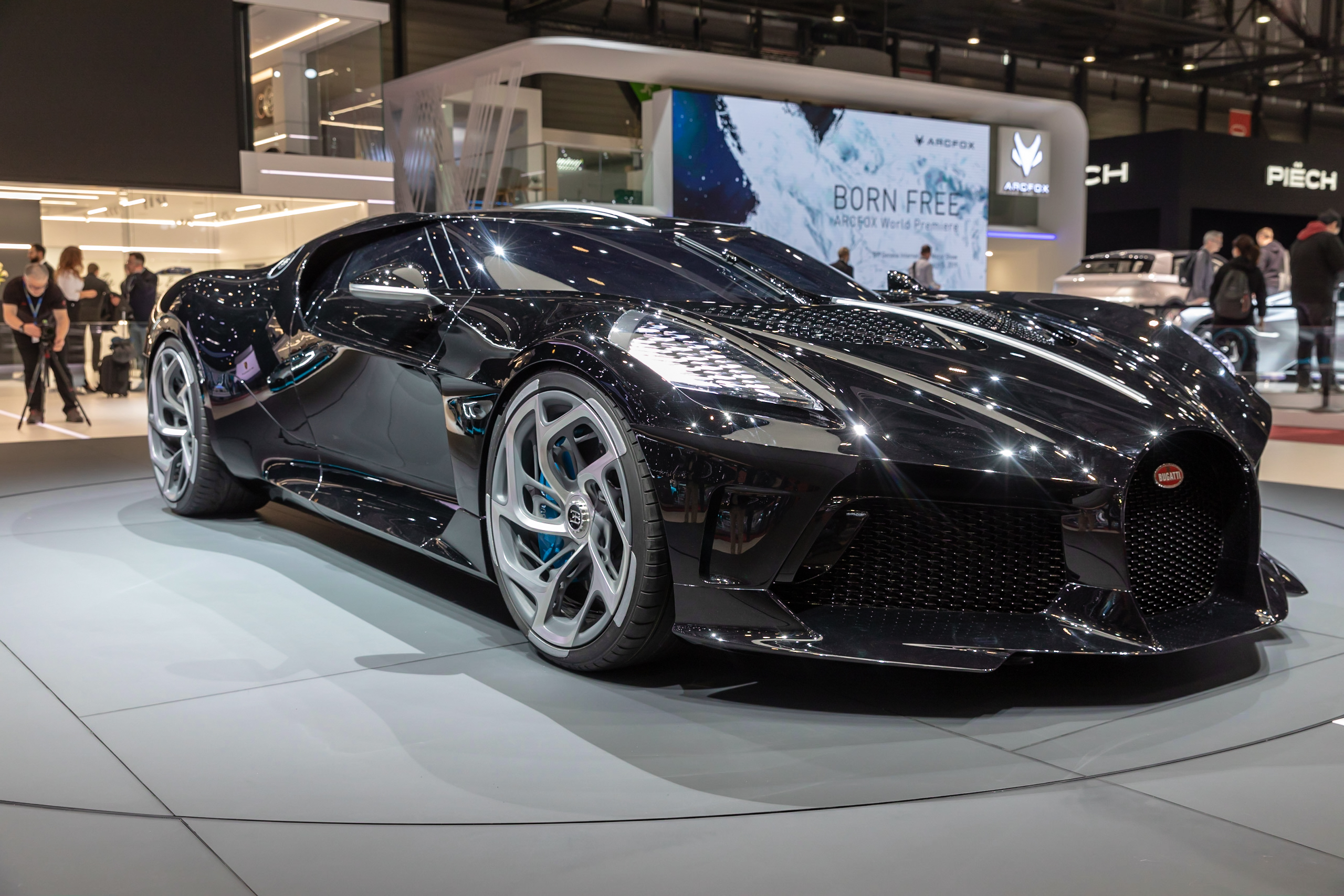 Bugatti La Voiture Noire at Geneva International Motor Show 2019, Le Grand-Saconnex